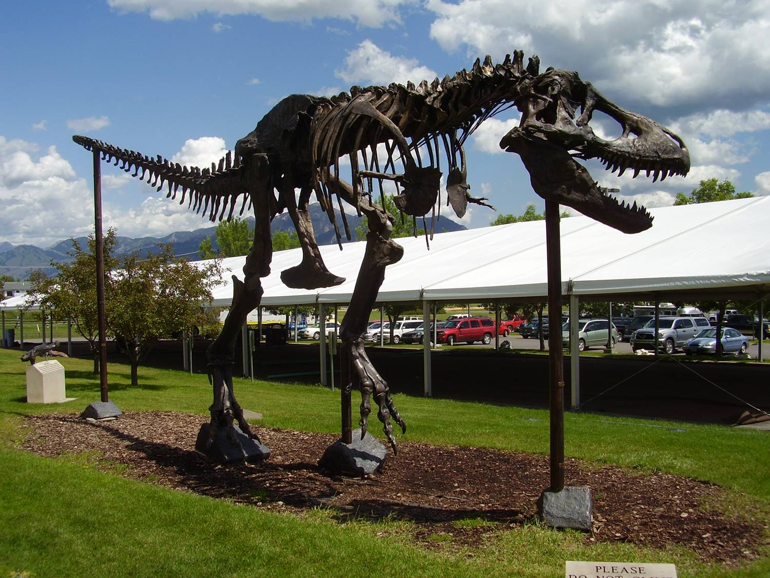 T. rex "Big Mike" in front of the entrance of the Museum of the Rockies, Bozeman, Montana.